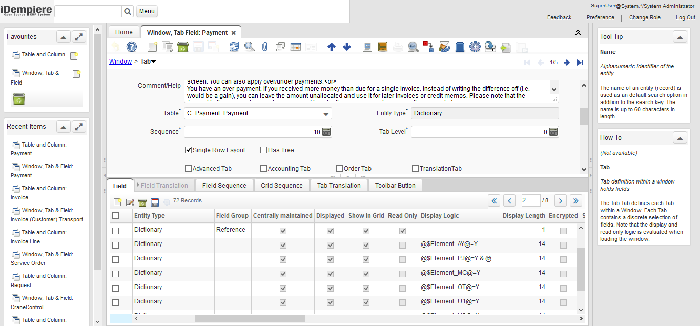 Active Data Dictionary that lets iDempiere manage entities, validation rules, windows, formats, and other customizations of the application without new JAVA code. So iDempiere can be seen not only as an ERP but also as a platform to build database driven applications. Very simple to create new tables to add specific business information.